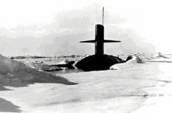 639 surfaced in arctic